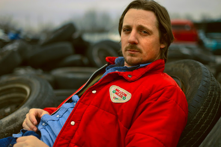 Sturgill Simpson